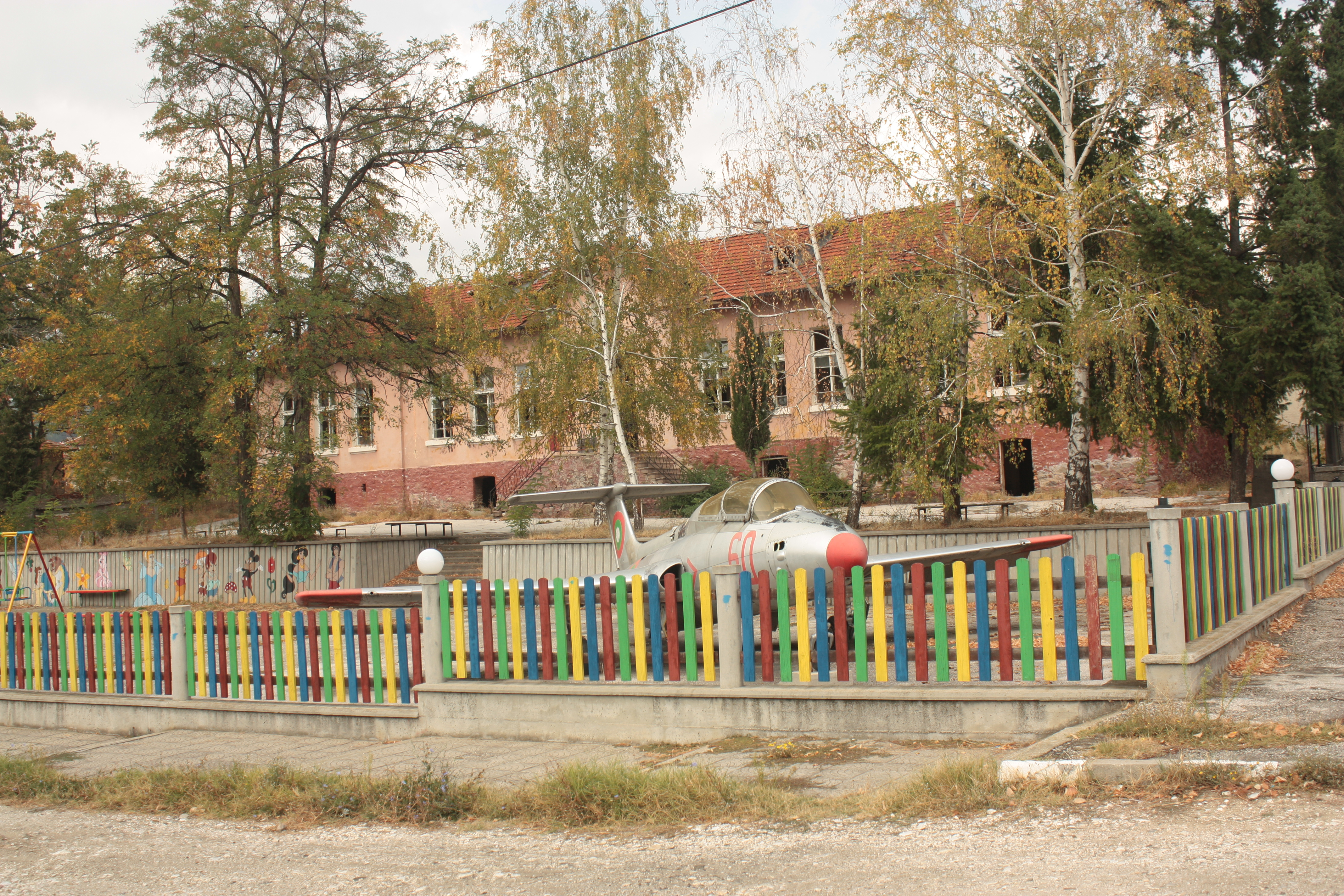 Akandzhievo School